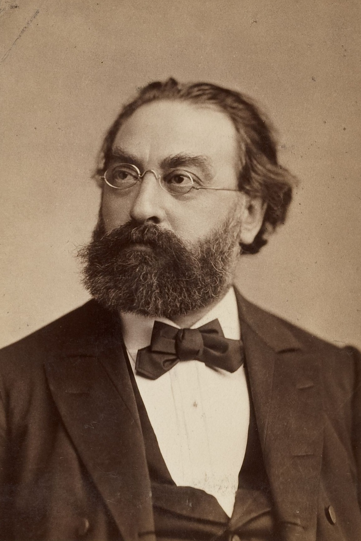 Cabinet card image of German violinist and composer Rudolf Bial (1834-1881). Cropped version. TCS 1.2466, Harvard Theatre Collection, Harvard University